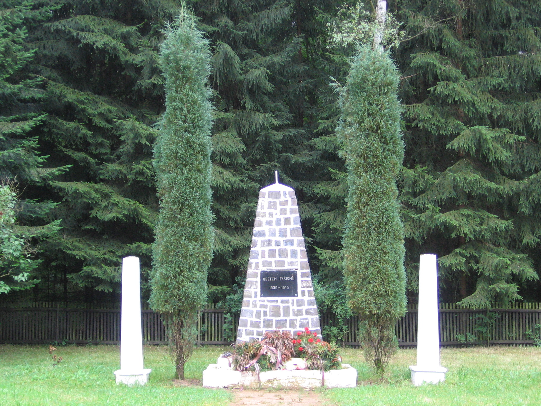 Memorial of the Victims of Fascism at the site of former Concentration Camp Rabštejn near Česká Kamenice (Czech Republic)